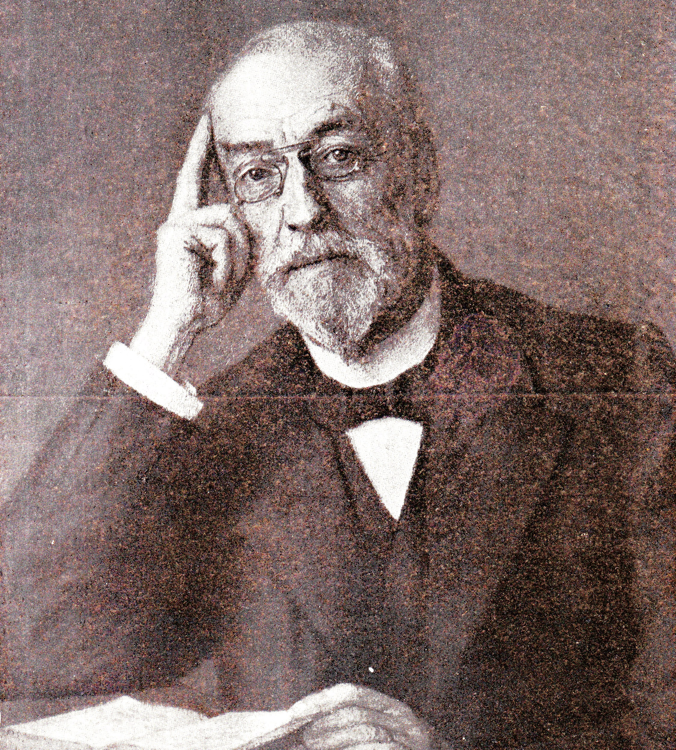 Dr. Samuel Cramer